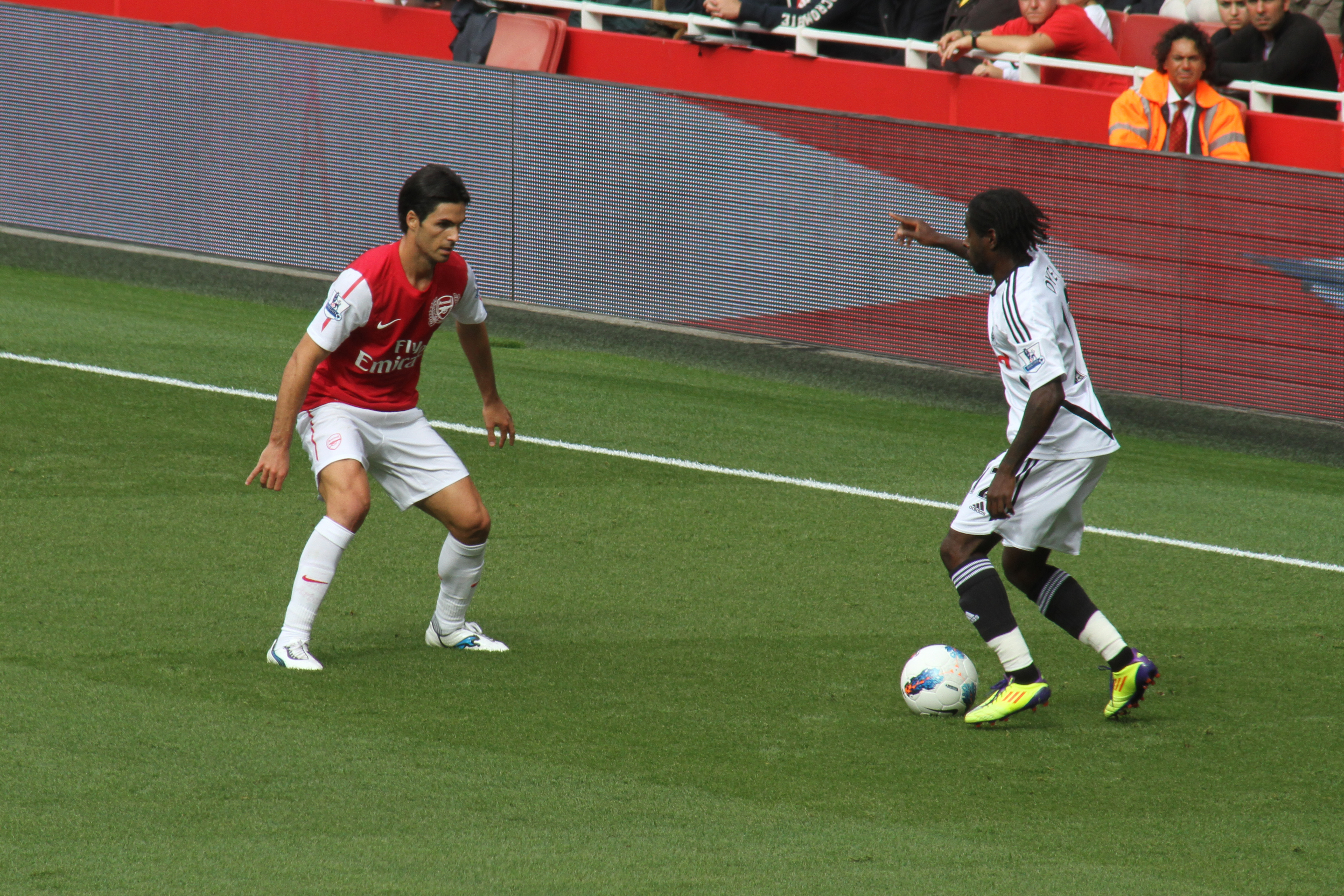 Mikel Arteta of Arsenal defending against Nathan Dyer.